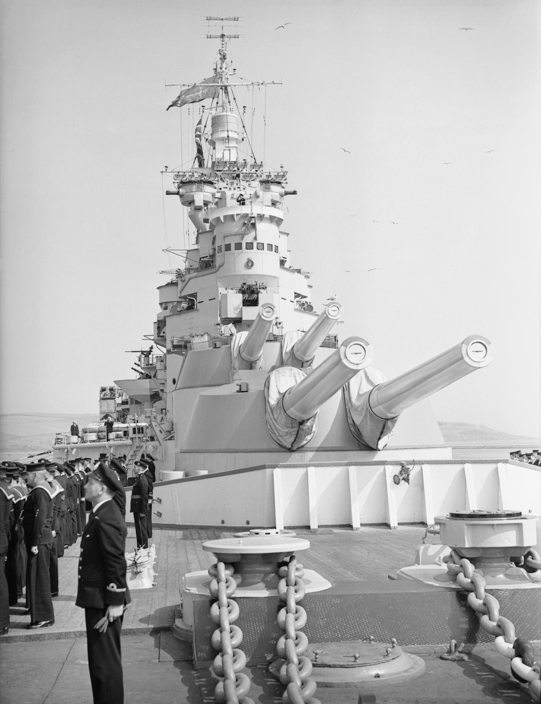 The Royal Navy during the Second World War View from the focsle of HMS RENOWN at Plymouth.